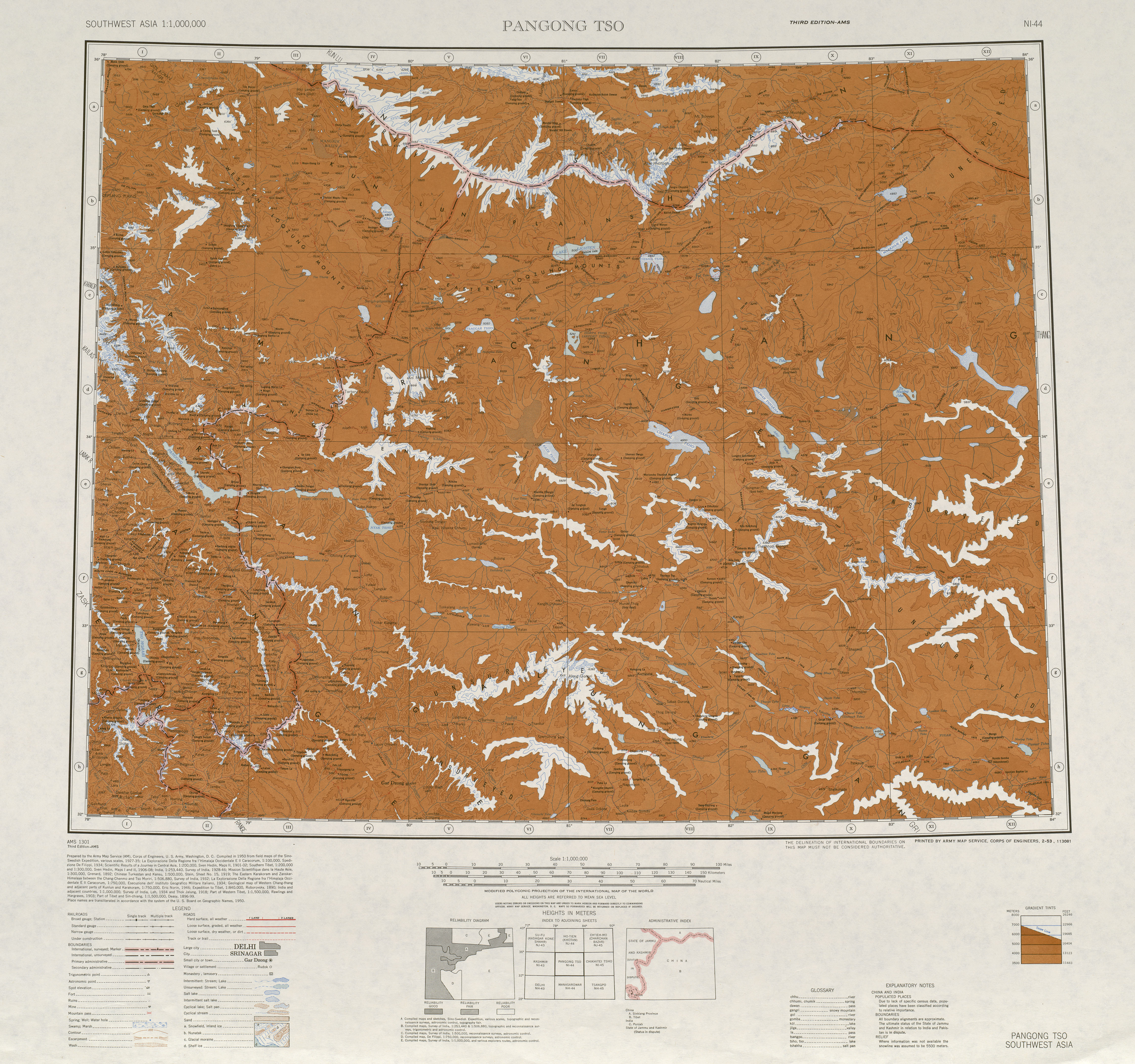 Map from the International Map of the World 1:1,000,000 (From map: "THE DELINEATION OF INTERNATIONAL BOUNDARIES ON THIS MAP MUST NOT BE CONSIDERED AUTHORITATIVE.")